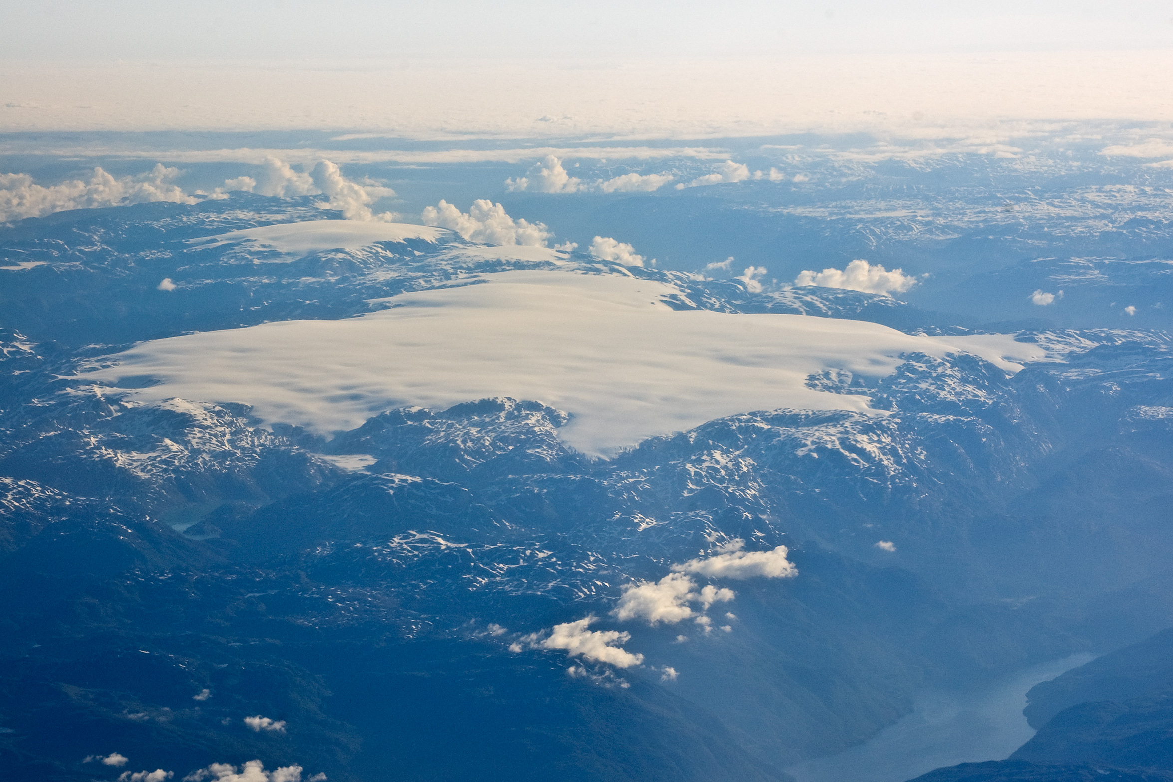 The Folgefonna glaciers in Hordaland county, Norway, seen from the air.